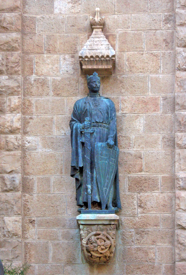 William II in crusader's robe on the façade of Ascension Church at Augusta Victoria foundation, Jerusalem